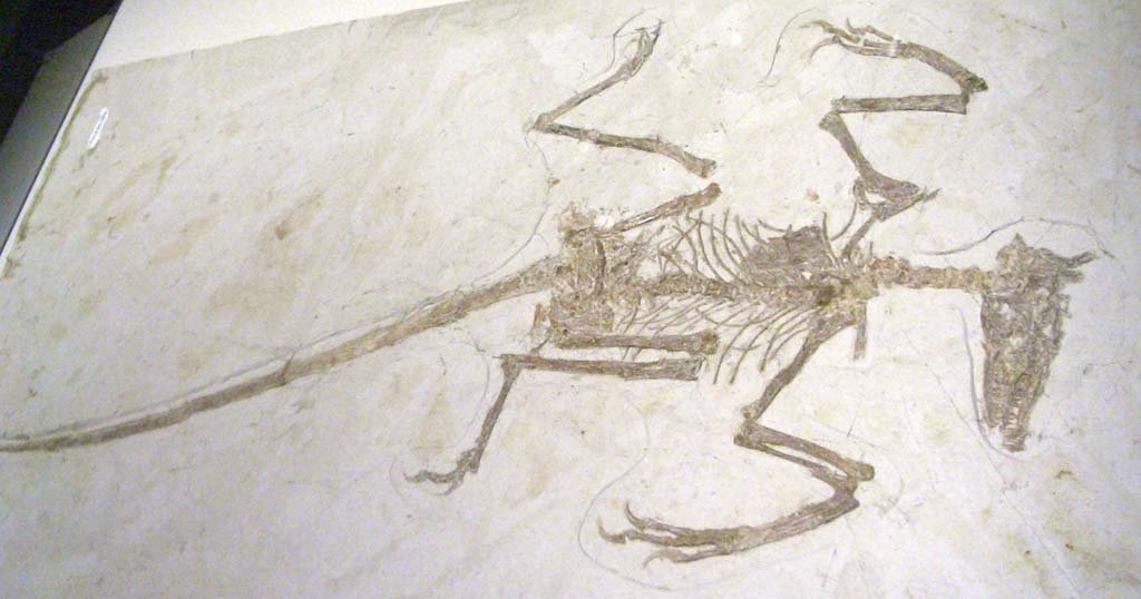 Sinornithosaurus millenii fossil displayed in Hong Kong Science Museum